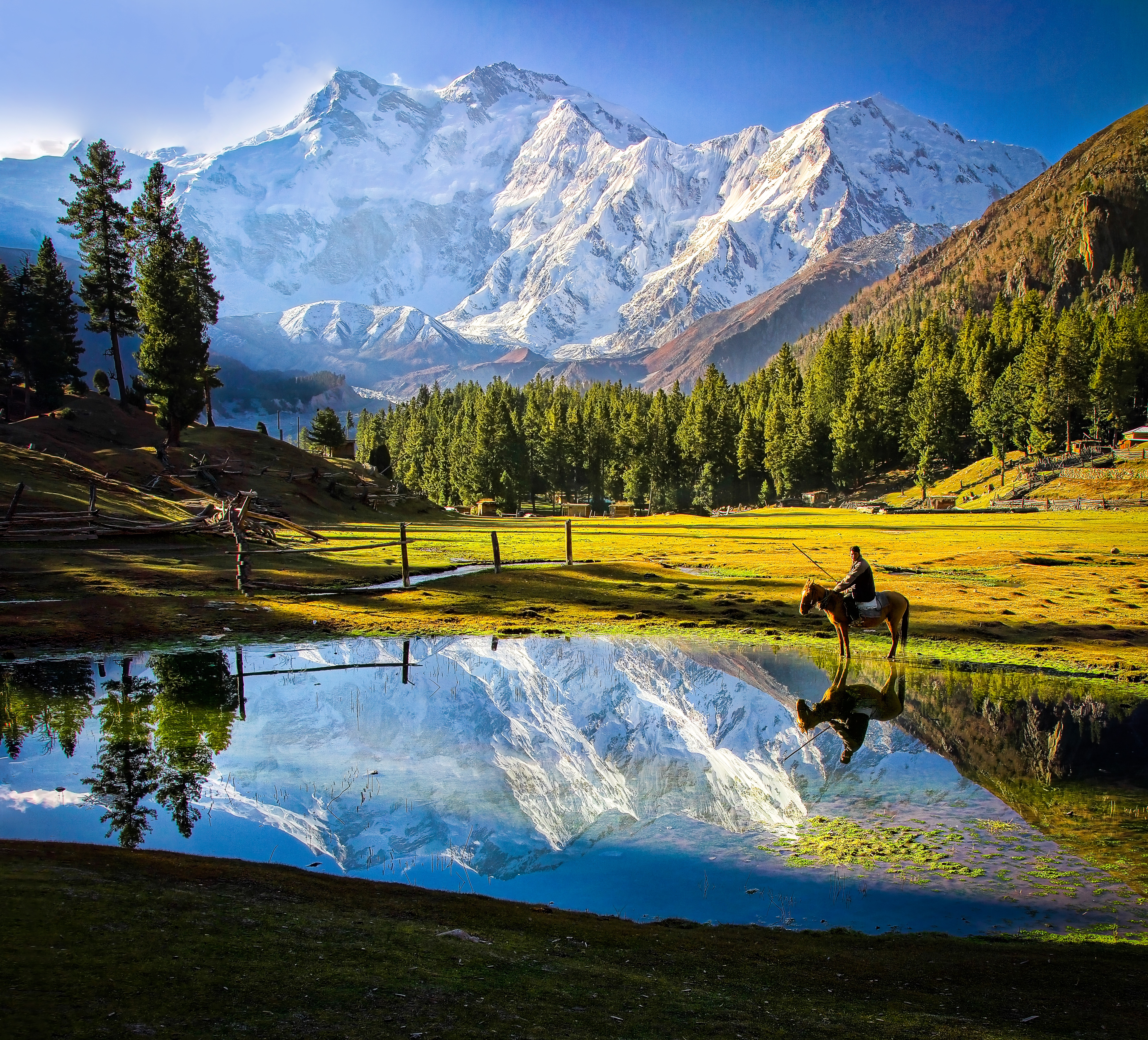 Nanga Parbat is the ninth highest mountain in the world at 8,126 metres above sea level. It is the western anchor of the Himalayas around which the Indus river skirts into the plains of Pakistan.